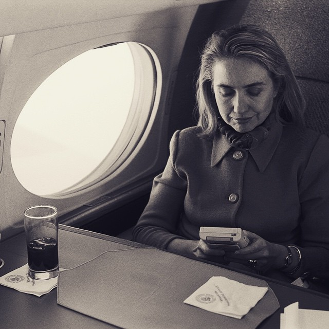 Instagram: "April 6, 1993: Hillary Rodham Clinton plays a Nintendo "Game Boy" electronic game on her flight from Austin, Texas to Washington, DC. Photographed by Ralph Alswang. #NARA #Nintendo #GameBoy #Videogames #ClintonCenter #ClintonLibrary #PresidentialLibraries #HRC #FirstLady" Contact sheet: "Hillary Rodham Clinton playing a Nintendo "Game Boy" video game on the flight from Austin en route to Washington, DC"